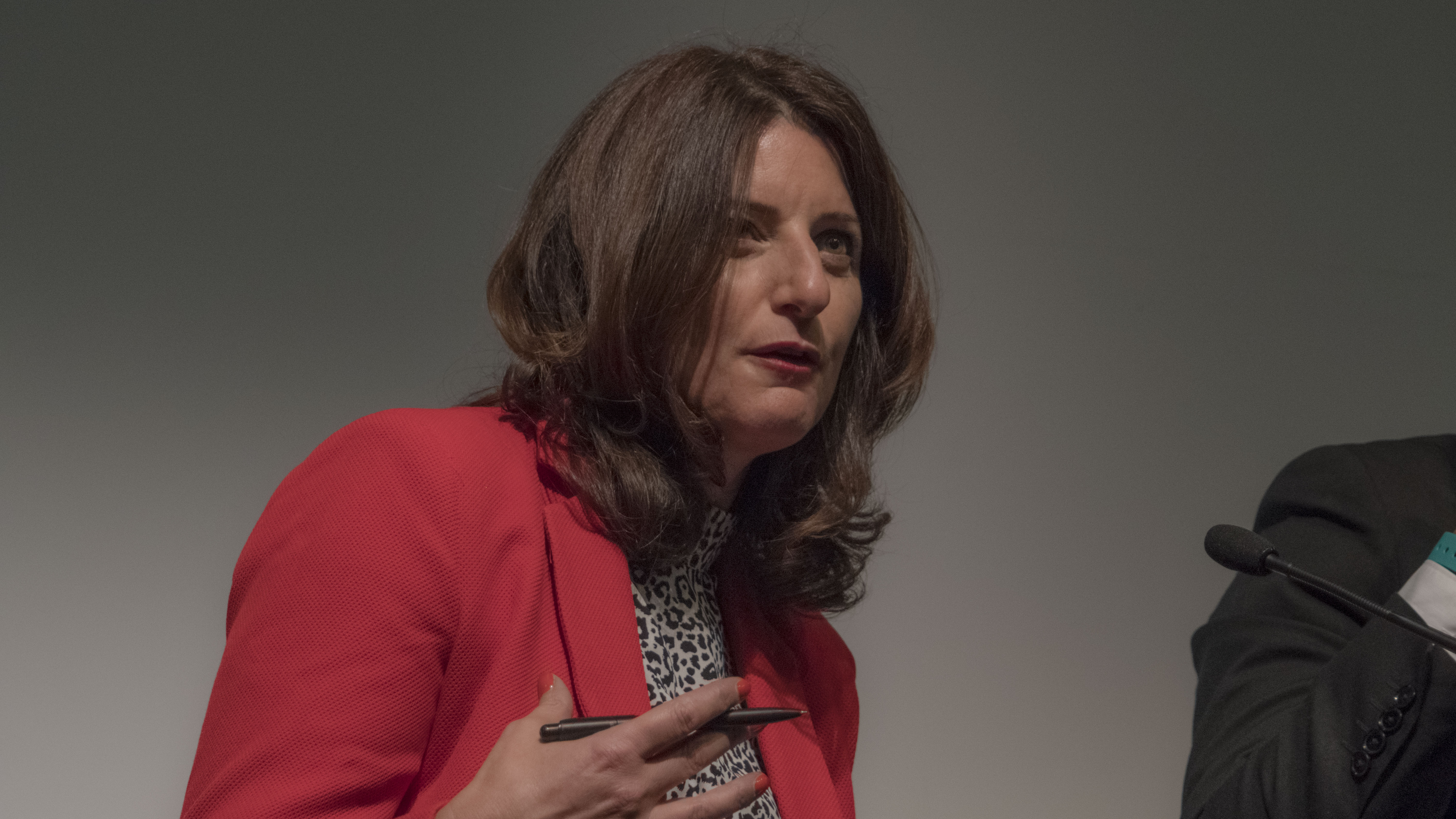 Rachel Shabi at The World Transformed